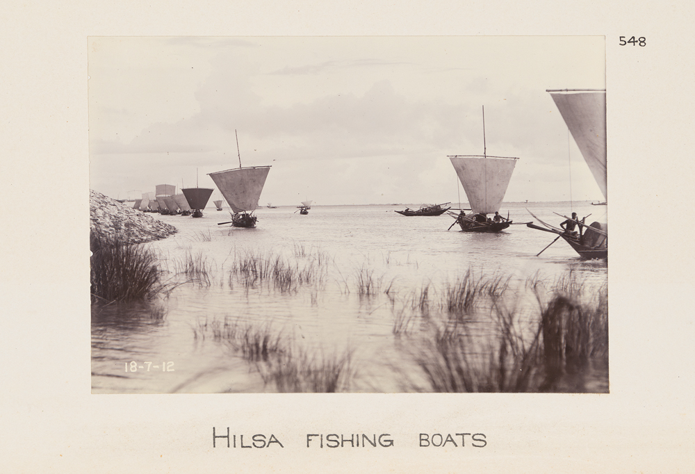 Title: Hilsa Fishing Boats Creator: Unknown Date: July 18, 1912 Part Of: Hardinge Bridge Construction, India Series: Album 4, Hardinge Bridge Construction, India Place: Paksey, Bangladesh Description: This photograph is from the fourth album in a set of eleven albums documenting the construction of Hardinge Bridge over the lower Ganges River at Sara, India (now Paksey, Bangladesh) on the Dhaka-Kolkata railway line. Sir Robert Gailes was the chief engineer for construction of the steel railroad bridge. Physical Description: 1 photographic print; gelatin silver, part of 1 volume (87 gelatin silver prints); 11 x 16 cm on 30 x 41 cm mount File: ag1991_0812x_4_56b_opt.jpg Rights: Please cite DeGolyer Library, Southern Methodist University when using this file. A high-resolution version of this file may be obtained for a fee. For details see the web page. For other information, . For more information and to view the image in high resolution, see: View the Europe, India, and Asia: Photographs, Manuscripts, and Imprints Collection